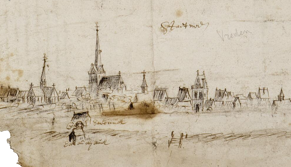 Part of: View on the city Vreden, with a drawing of the border between Gelderland and Münster at the Masterfield, 29 juni 1649